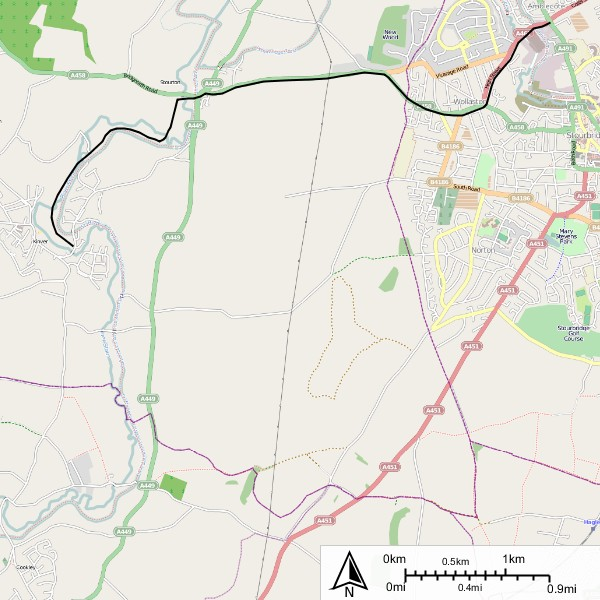 Kinver Light Railway Legend: ━━━ Tertiary lines